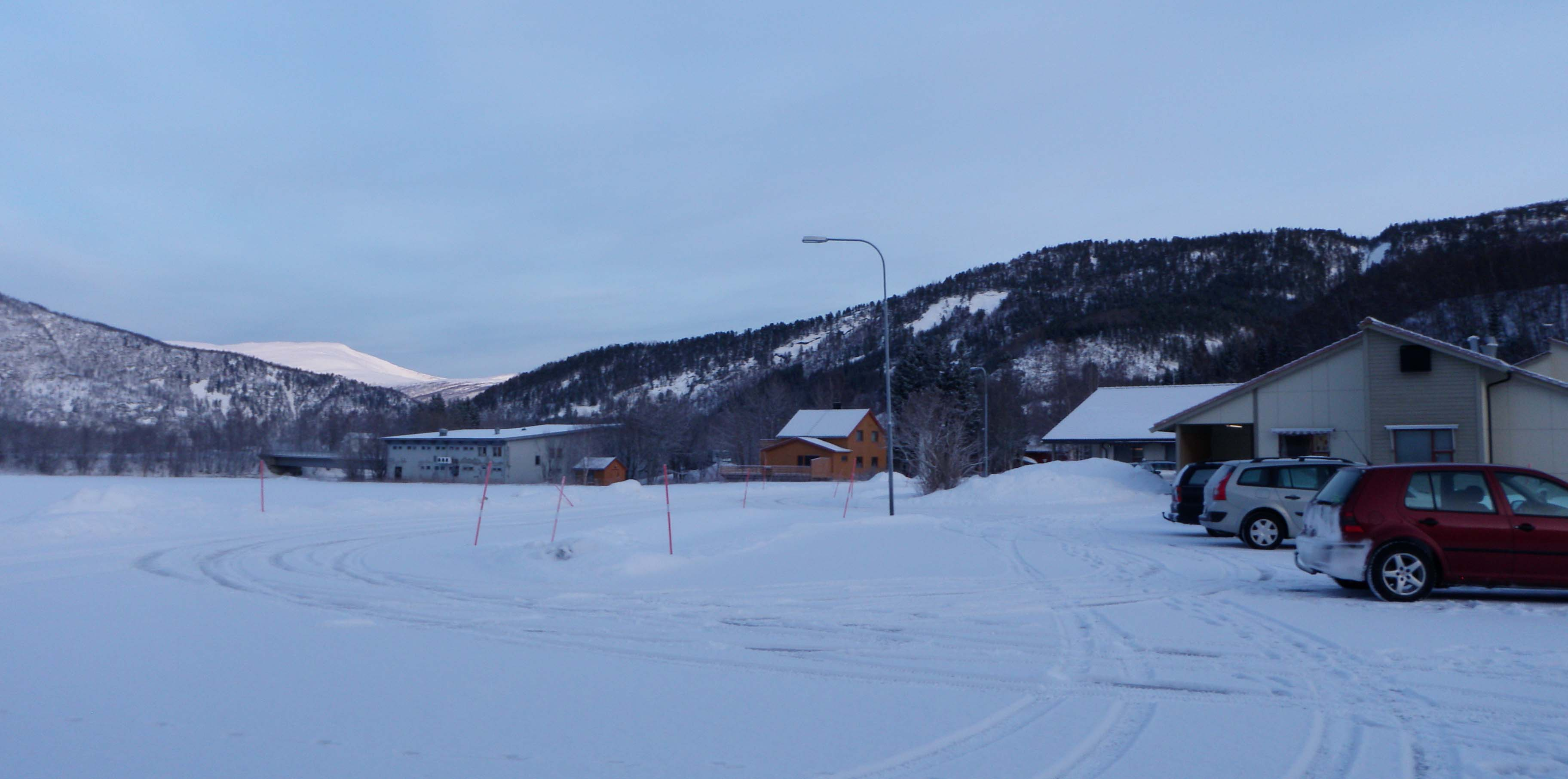 The village of Moldjord in Beiarn in Norway, viewed from Beiarn Church. To the left is a bridge over the river Beiarelva and a Coop Marked grocery store, to the right the local medical centre.